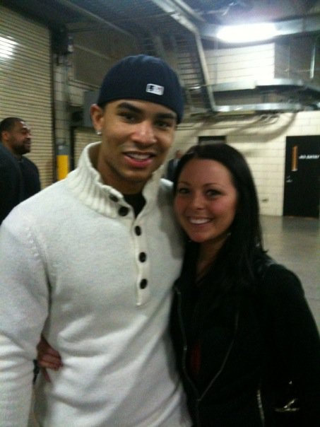 Jerryd Bayless posing with a fan